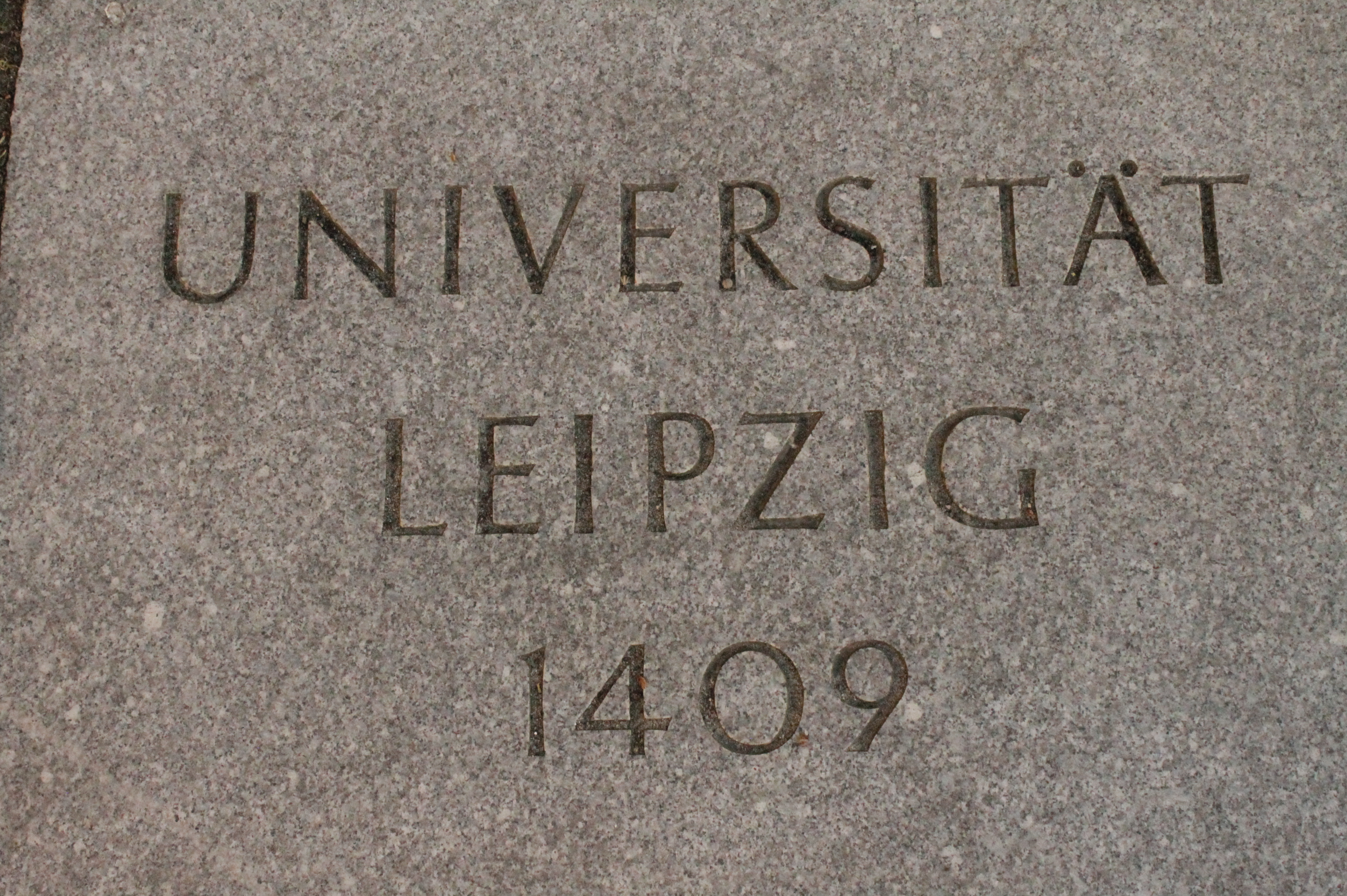 Memorial stone to the foundation of Leipzig University, quadrangle of Wittenberg University